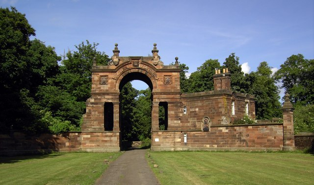 Gatehouse Gatehouse at Gosford House.